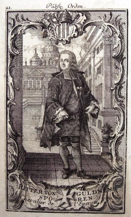 Portrait of a Papal Knight of the Golden Spur entitled RITTER VON GULDNEN SPOREN Chevalier de l'Eperon d'Or